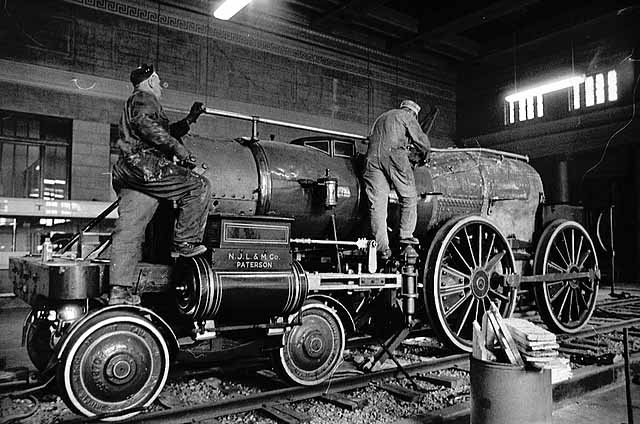 MHS_1975 dismantling Wm Crooks Location no. HE6.1Gw p30 The Minnesota Historical Society dismantling the locomotive William Crooks, which was on display for many years at Saint Paul's Union Depot. The train was being moved due to the planned closing of the old train station.